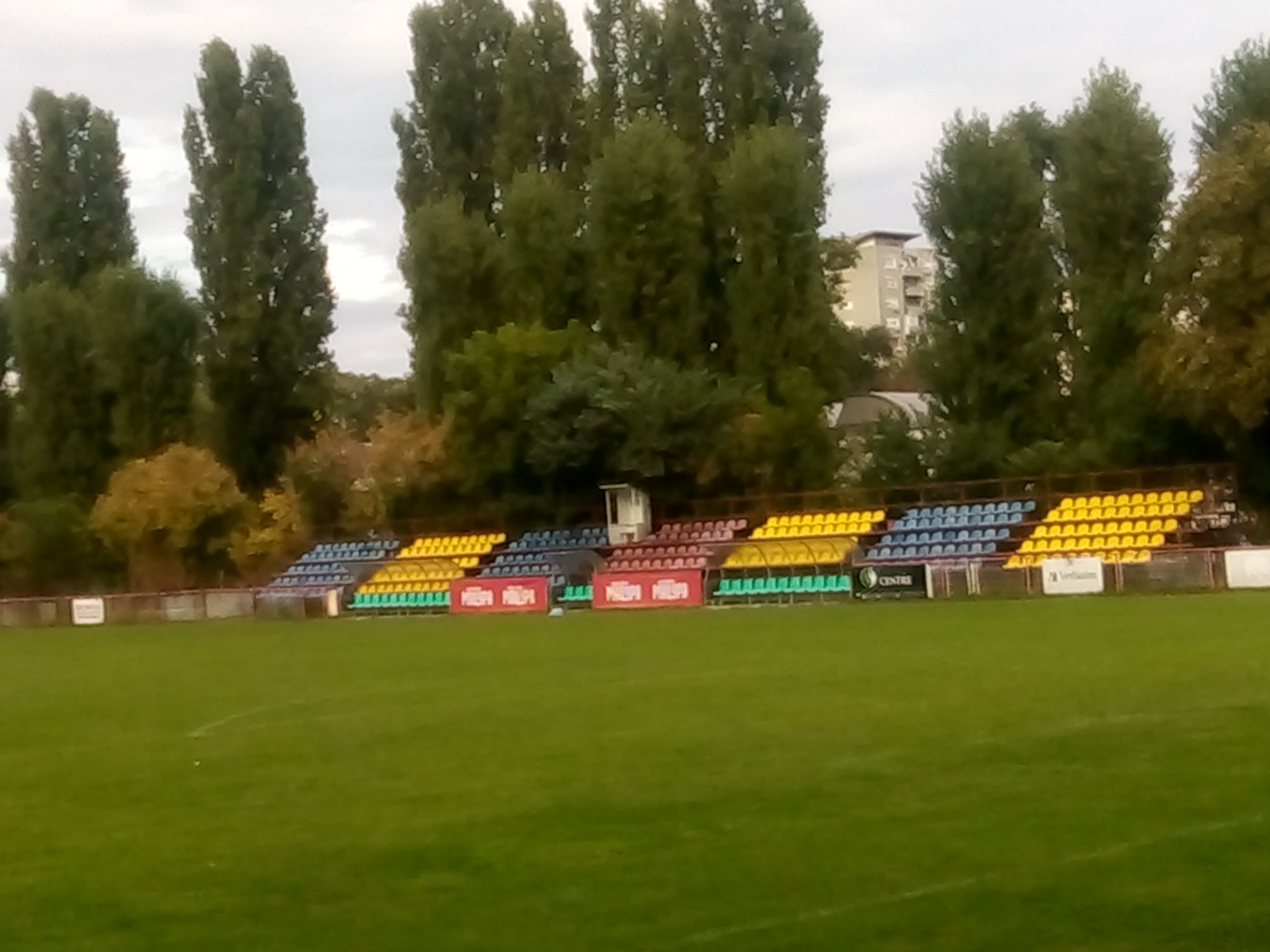 FK IMT stadium, Belgrade